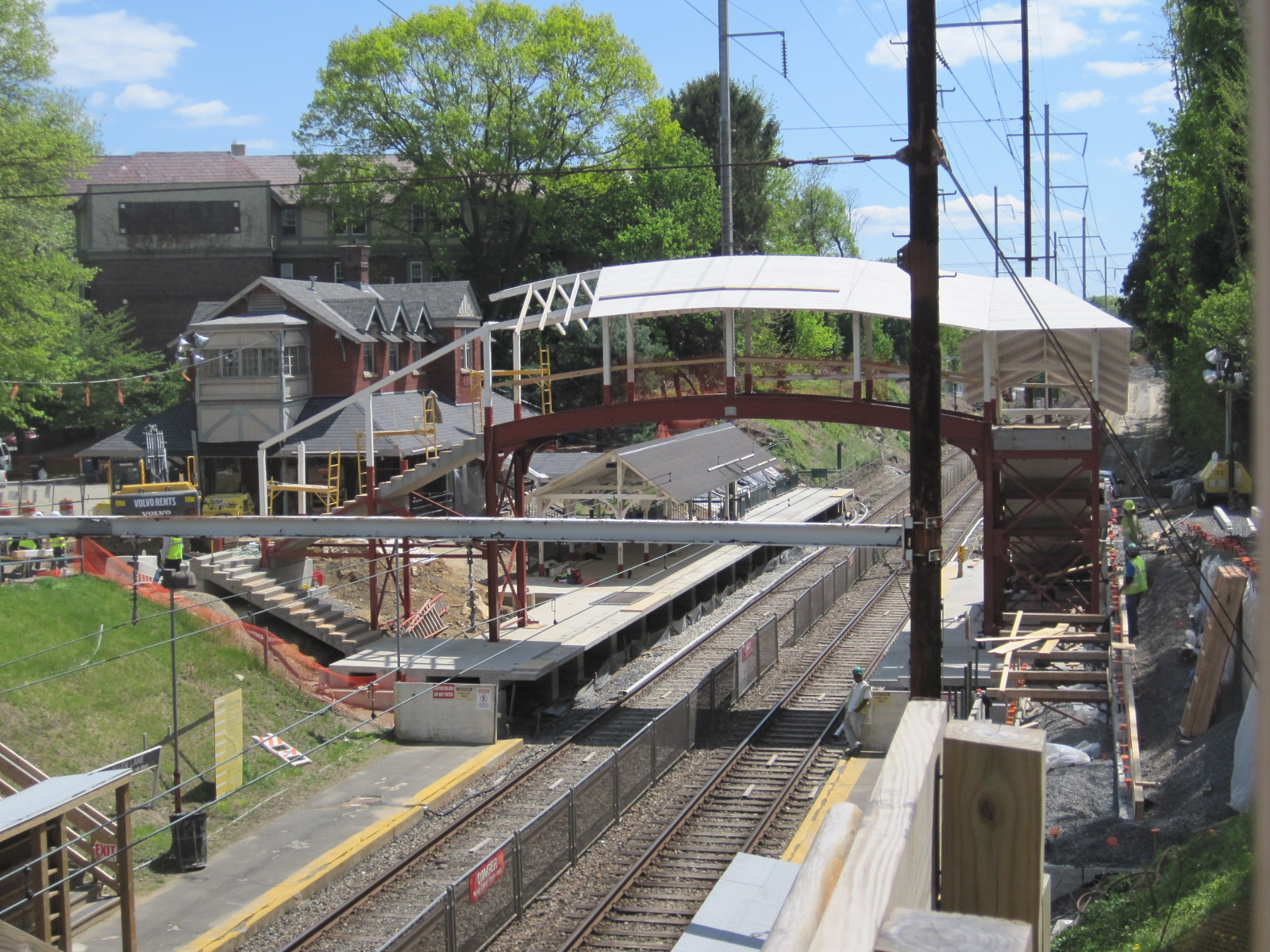 Allen Lane Train Station, Philadelphia